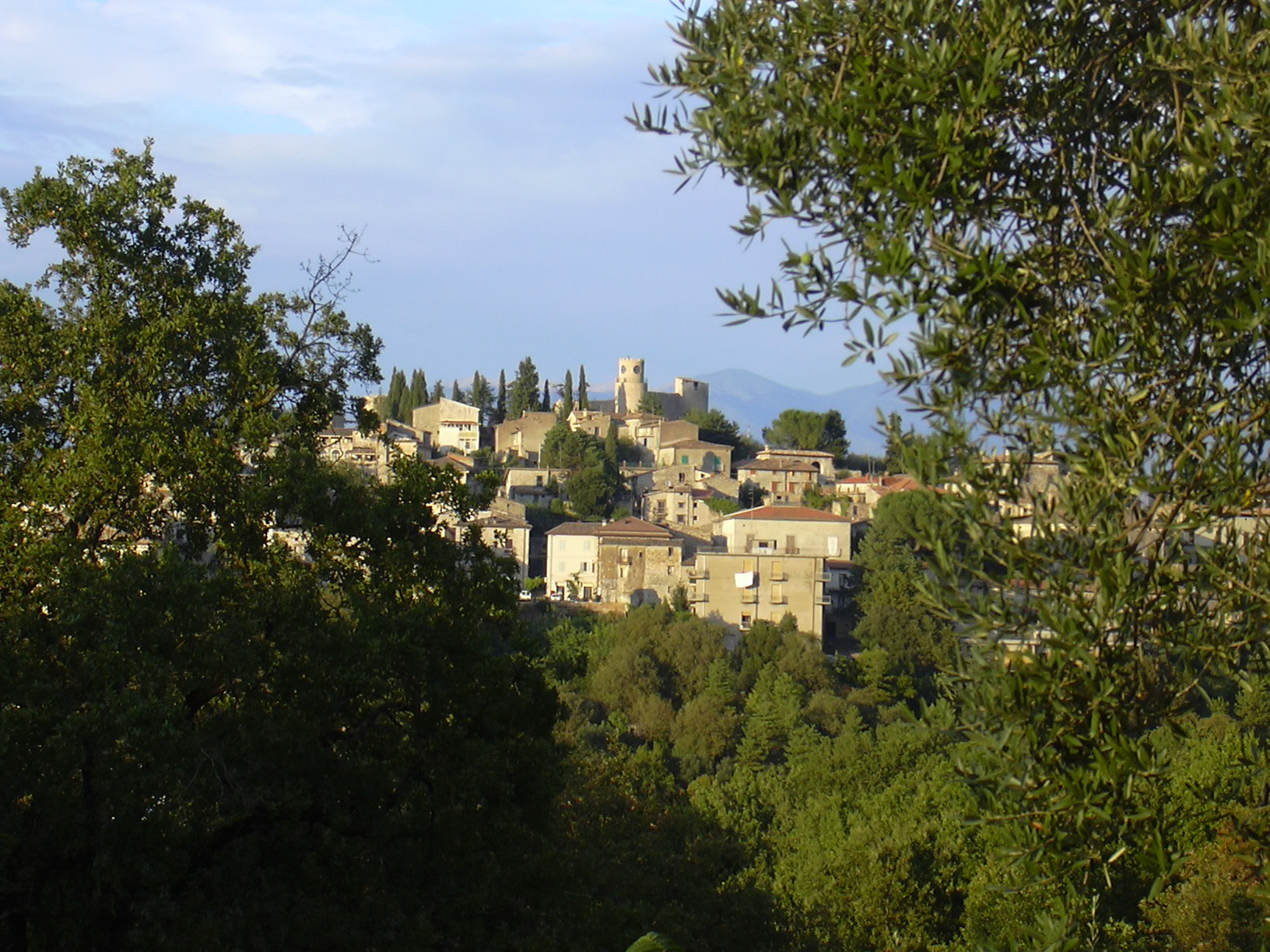 Pico Farnese (FR) Panorama